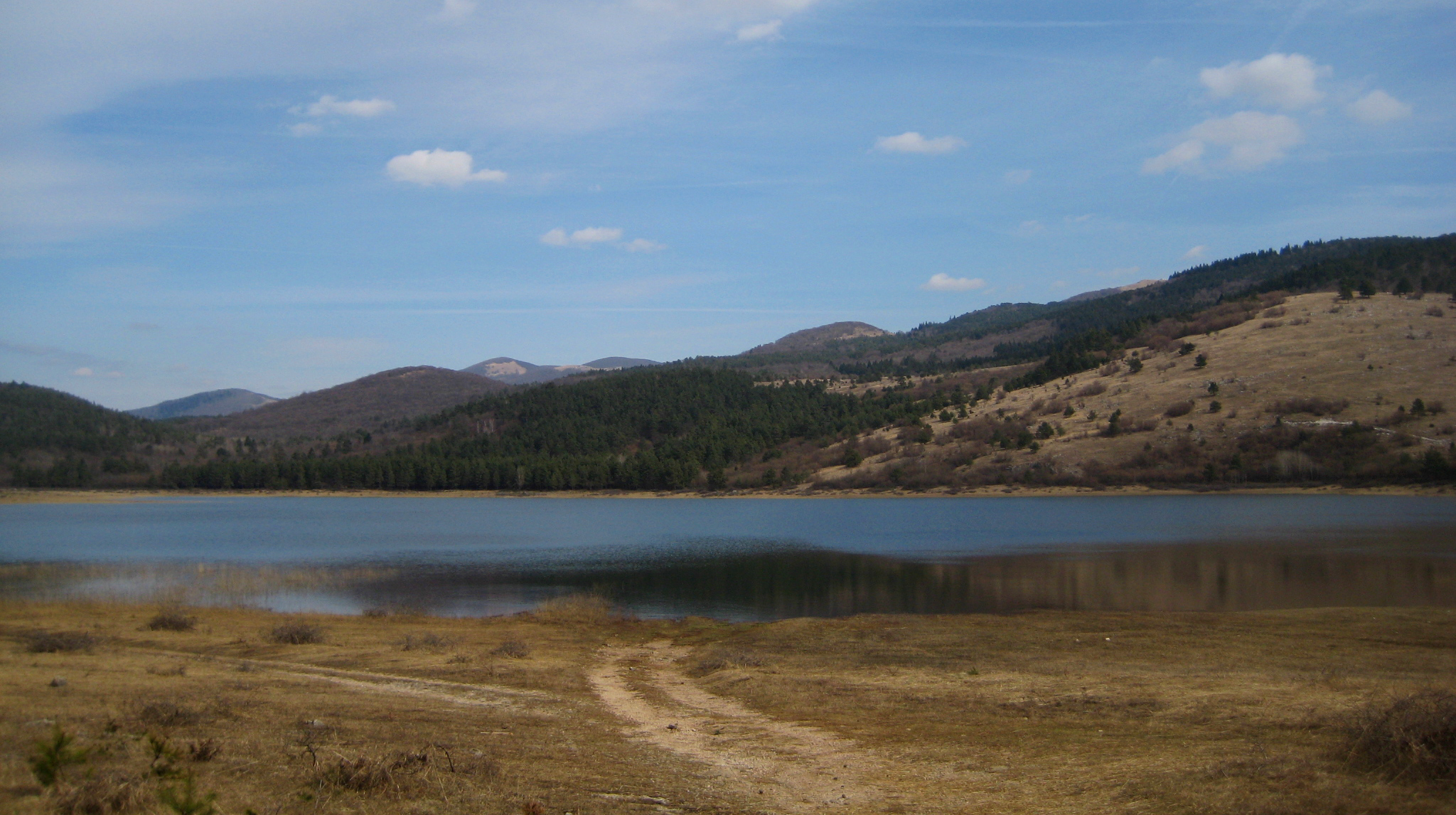 Petelinsko jezero, lake in Slovenia